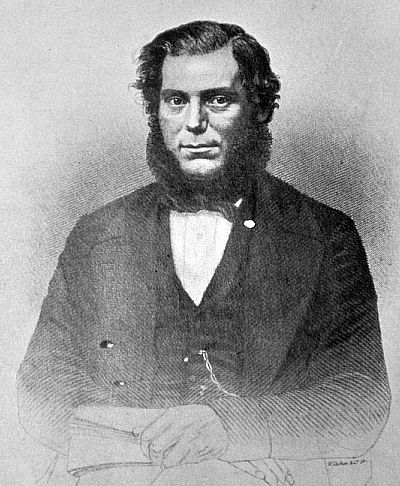 Hornjoserbsce: Serbski polarny slědźer a misionar Jan Awgust Měrćink (1817–1875).